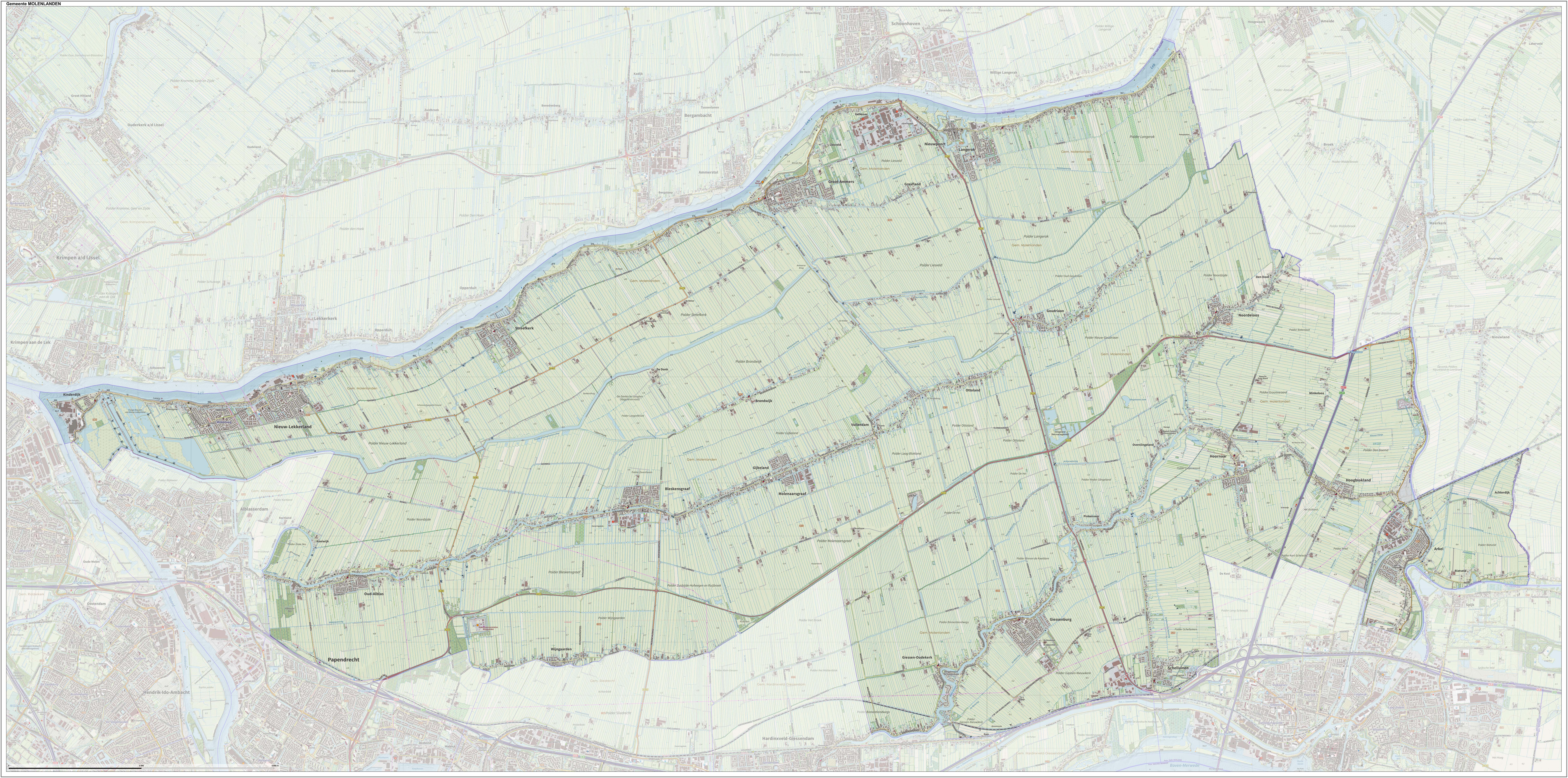 Topographic map of the upcoming municipality. Compiled by Jan-Willem van Aalst using open data from the Dutch Government collection of Geodata, plus OpenStreetMap, CC-BY OSM contributors.